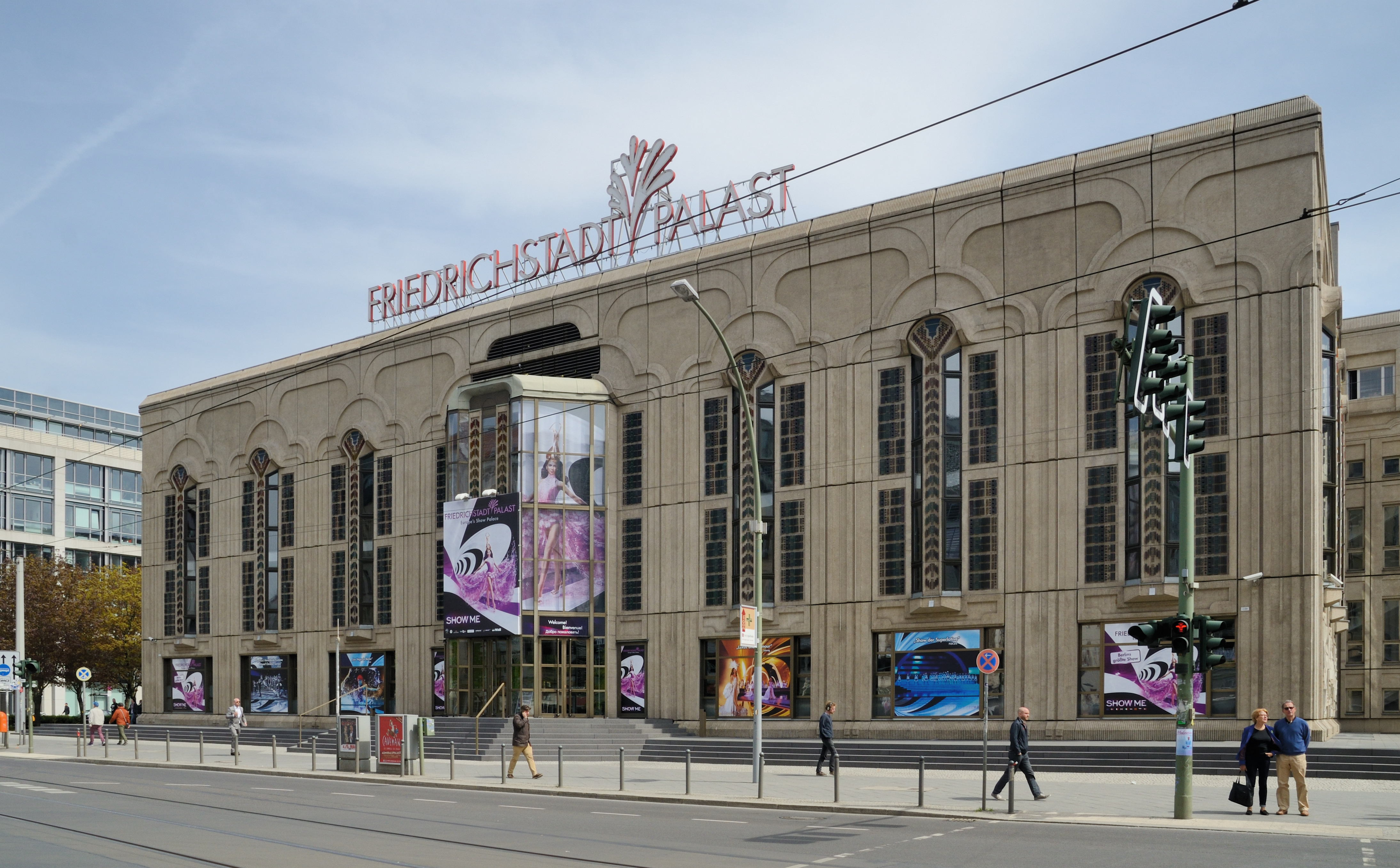 Berlin: Friedrichstadtpalast